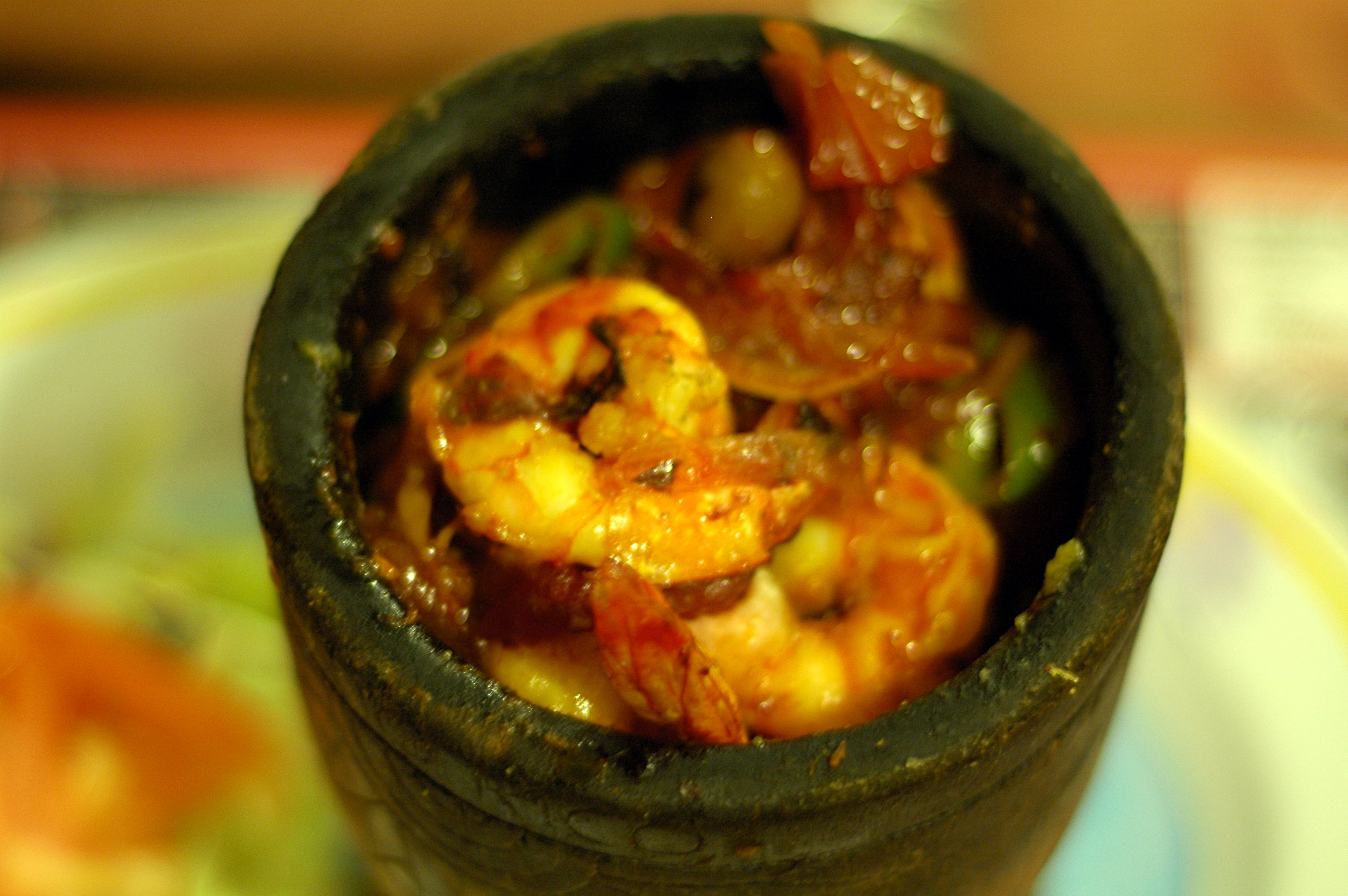 Mofongo con camarones.